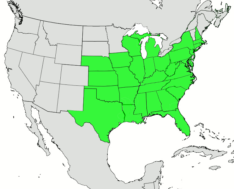 Campsis radicans range map